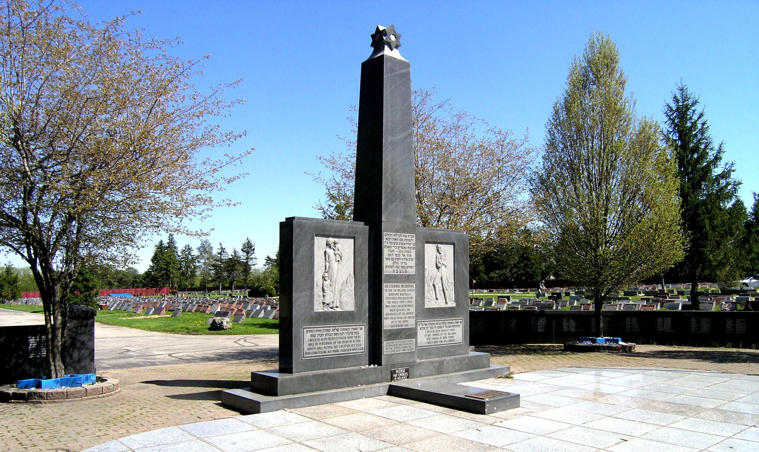 Holocaust Memorial Cleveland Ohio. Possibly the nation's first public memorial of the Holocaust, created by the Kol Israel Foundation in 1961. For people who have no place to mourn their families lost in World War II.